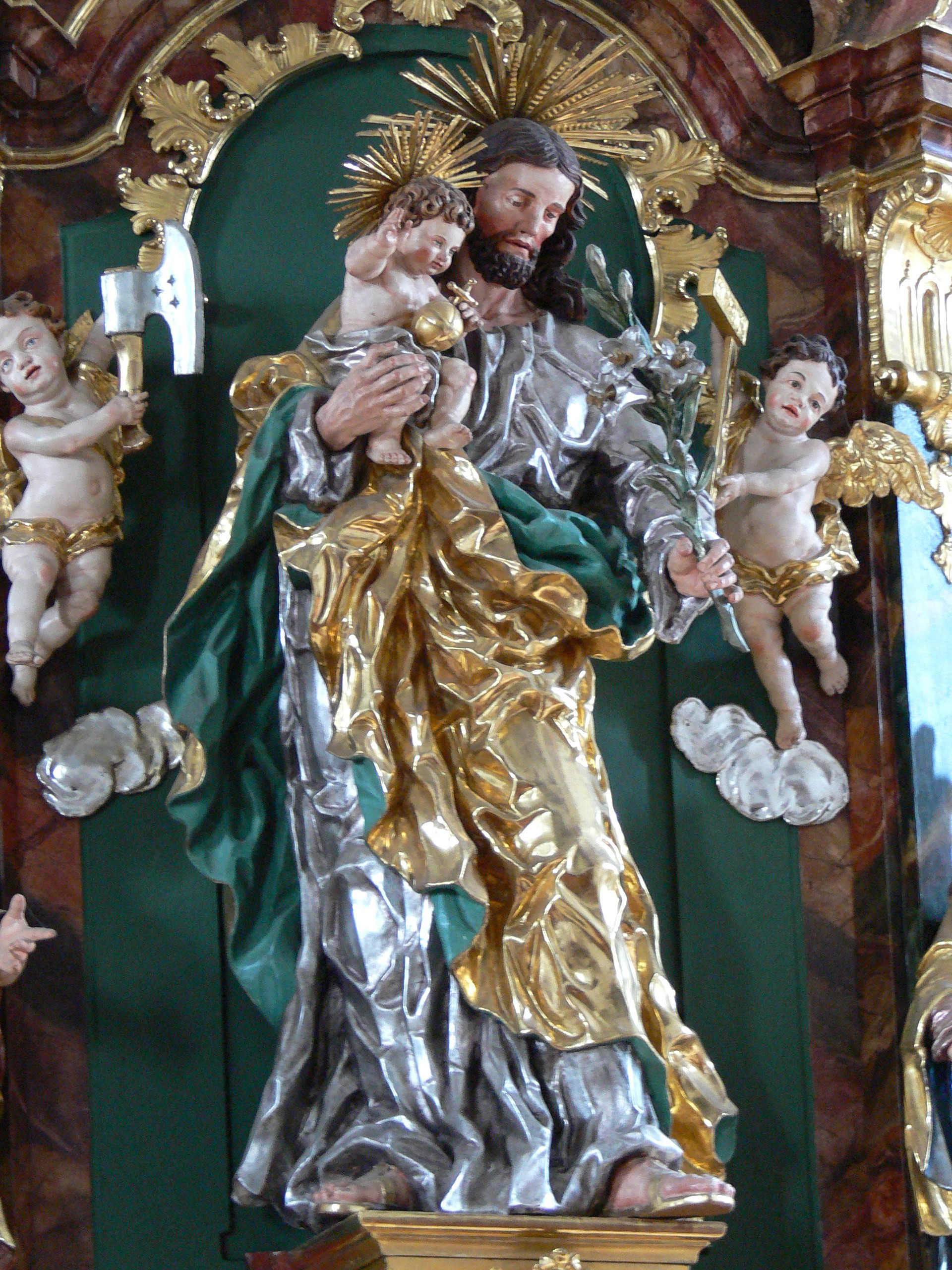 Sarleinsbach ( Upper Austria ). Saint Peter parish church: Altar of Saint Joseph ( 1750s ) - detail: Statue of Saint Joseph and Child ( 1939 ) by Klothilde Rauch.